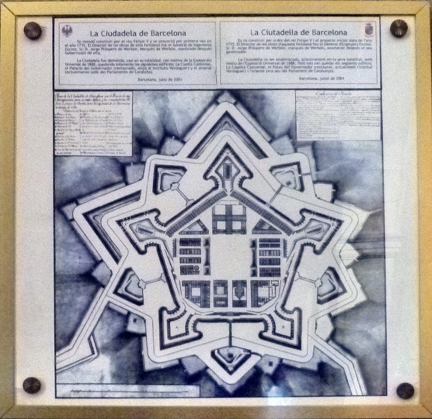 Map of the military compound of Ciudadela; Military Parish Church, Barcelona, Catalonia, Spain